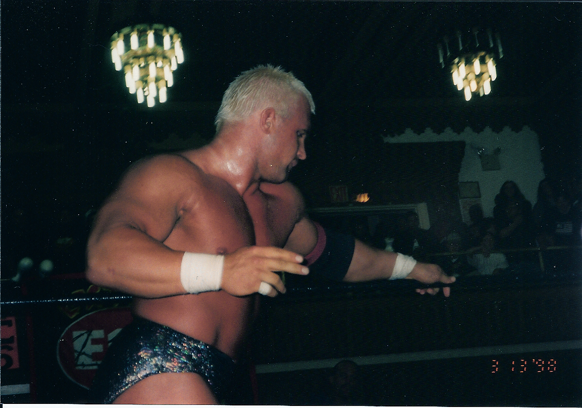 ECW @ Elks Lodge in Queens - March 13, 1998 RIP Chris.